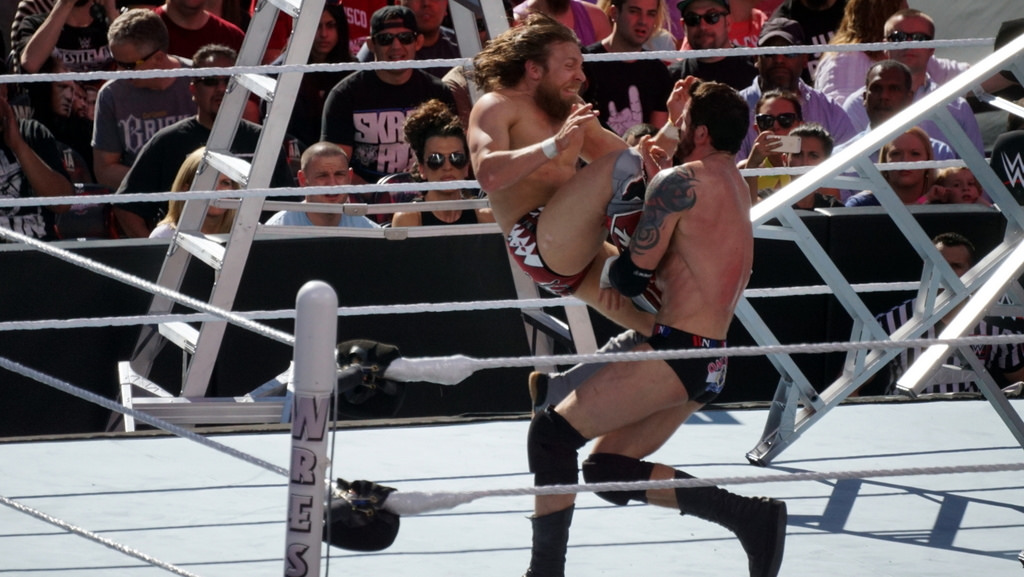 Daniel Bryan hits Wade Barrett with a running single leg high knee at WrestleMania 31 in Santa Clara, California.